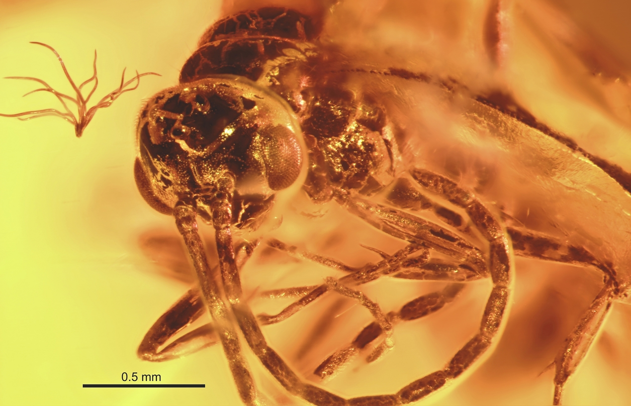 Closeup view of a Pachycondyla succinea male head. Specimen BMNHP29202; British Museum of Natural History Baltic Amber, Middle Eocene; Samland Peninsula?, Baltic Region, Europe.